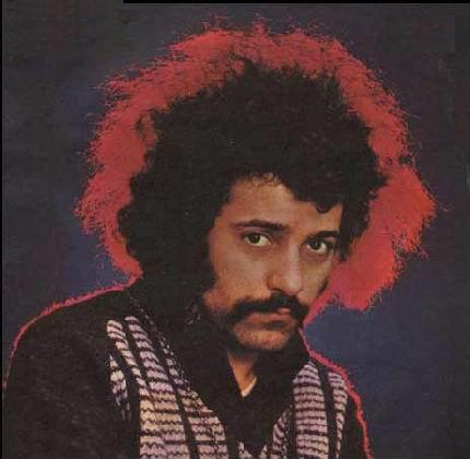 Farhad Mehrad, Persian Rock Signer